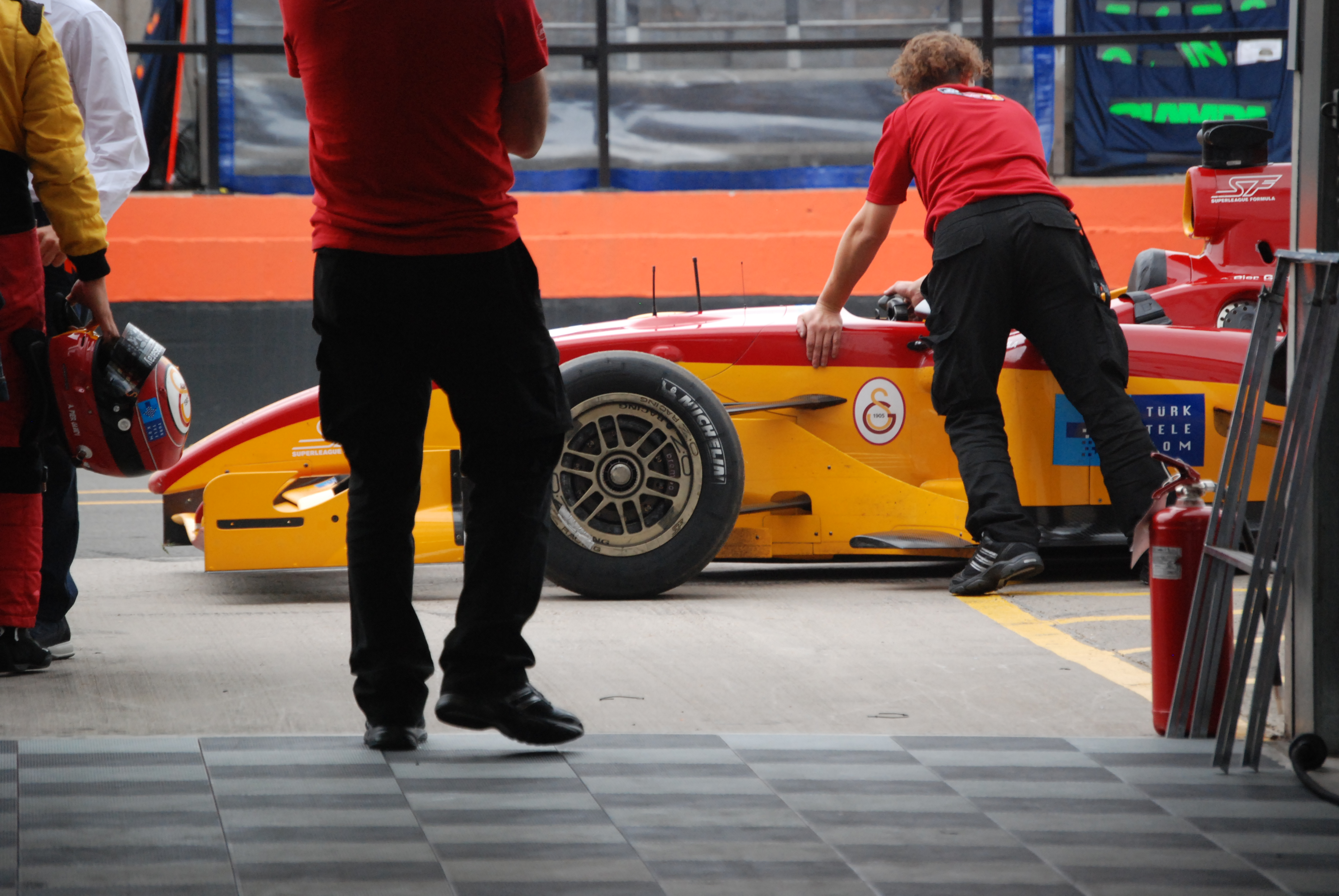 The Galatasaray Superleague Formula car in the pits at Donington Park.